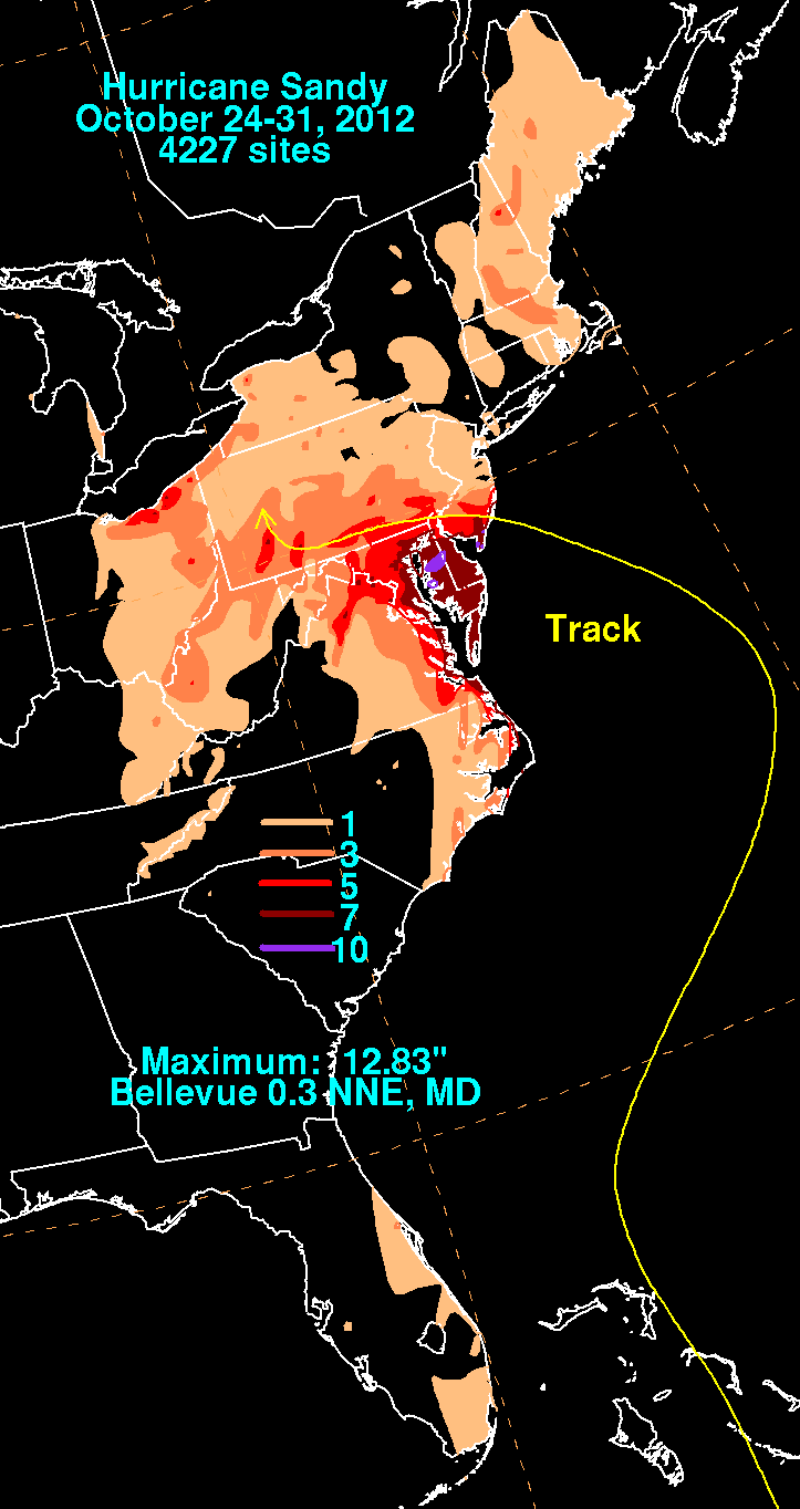 Storm total rainfall map of Hurricane Sandy during October 2012.